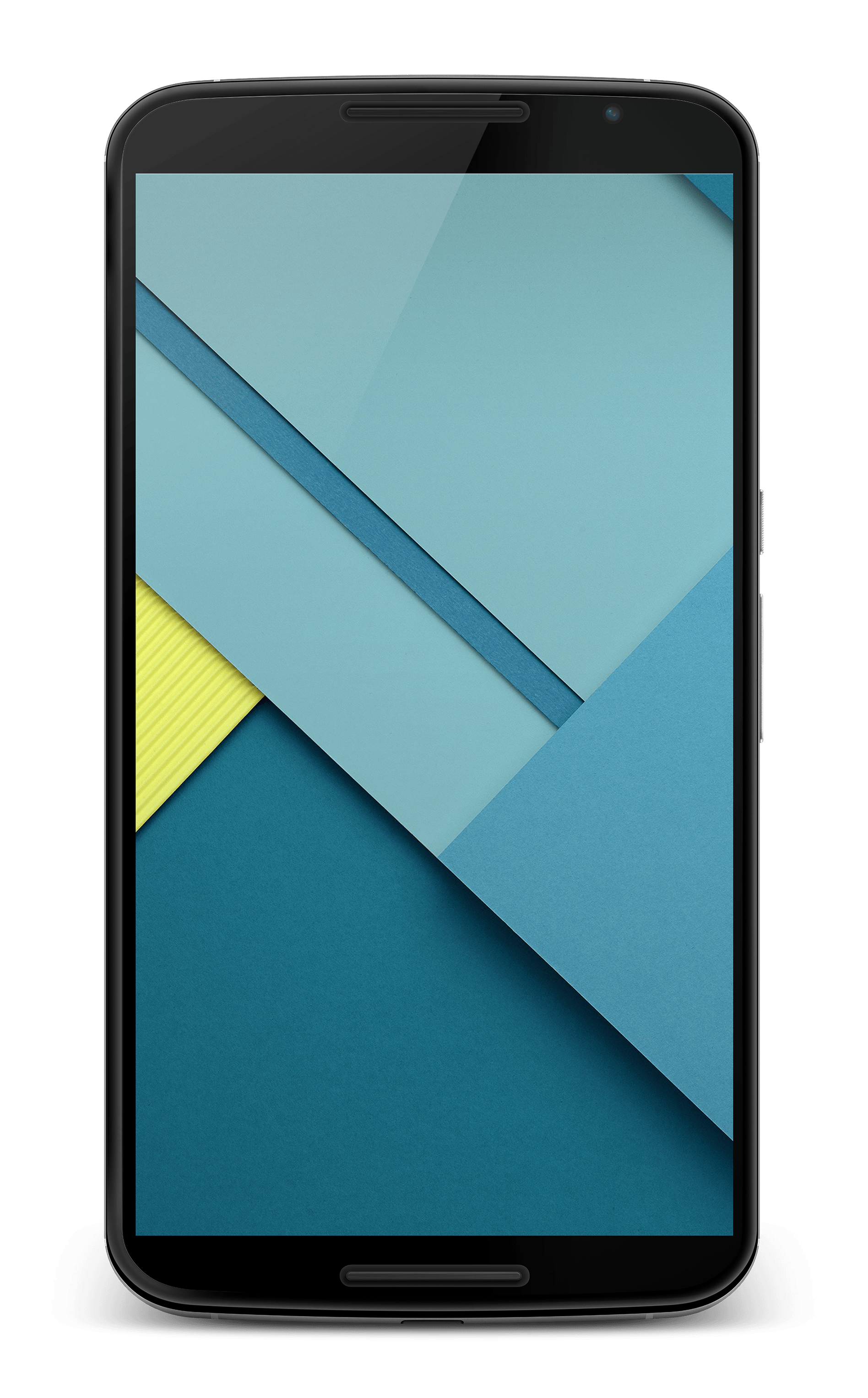 Photo of the Nexus 6, which is released under CC 2.5 Attribution. Portions of this page are reproduced from work created and shared by the Android Open Source Project and used according to terms described in the Creative Commons 2.5 Attribution License. [1].